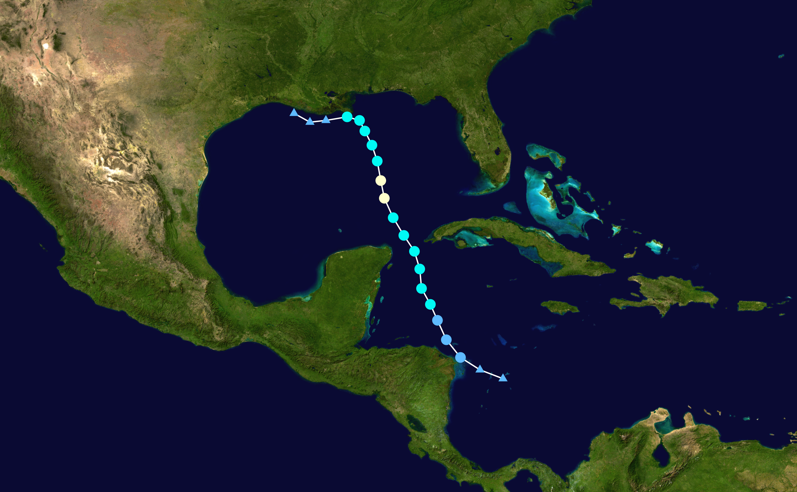 Track map of Hurricane Marco of the 2020 Atlantic hurricane season. The points show the location of the storm at 6-hour intervals. The colour represents the storm's maximum sustained wind speeds as classified in the Saffir–Simpson scale (see below), and the shape of the data points represent the nature of the storm, according to the legend below. Saffir–Simpson scale Tropical depression≤38 mph≤62 km/h Category 3111–129 mph178–208 km/h Tropical storm39–73 mph63–118 km/h Category 4130–156 mph209–251 km/h Category 174–95 mph119–153 km/h Category 5≥157 mph≥252 km/h Category 296–110 mph154–177 km/h Unknown Storm type Tropical cyclone Subtropical cyclone Extratropical cyclone / Remnant low / Tropical disturbance / Monsoon depression